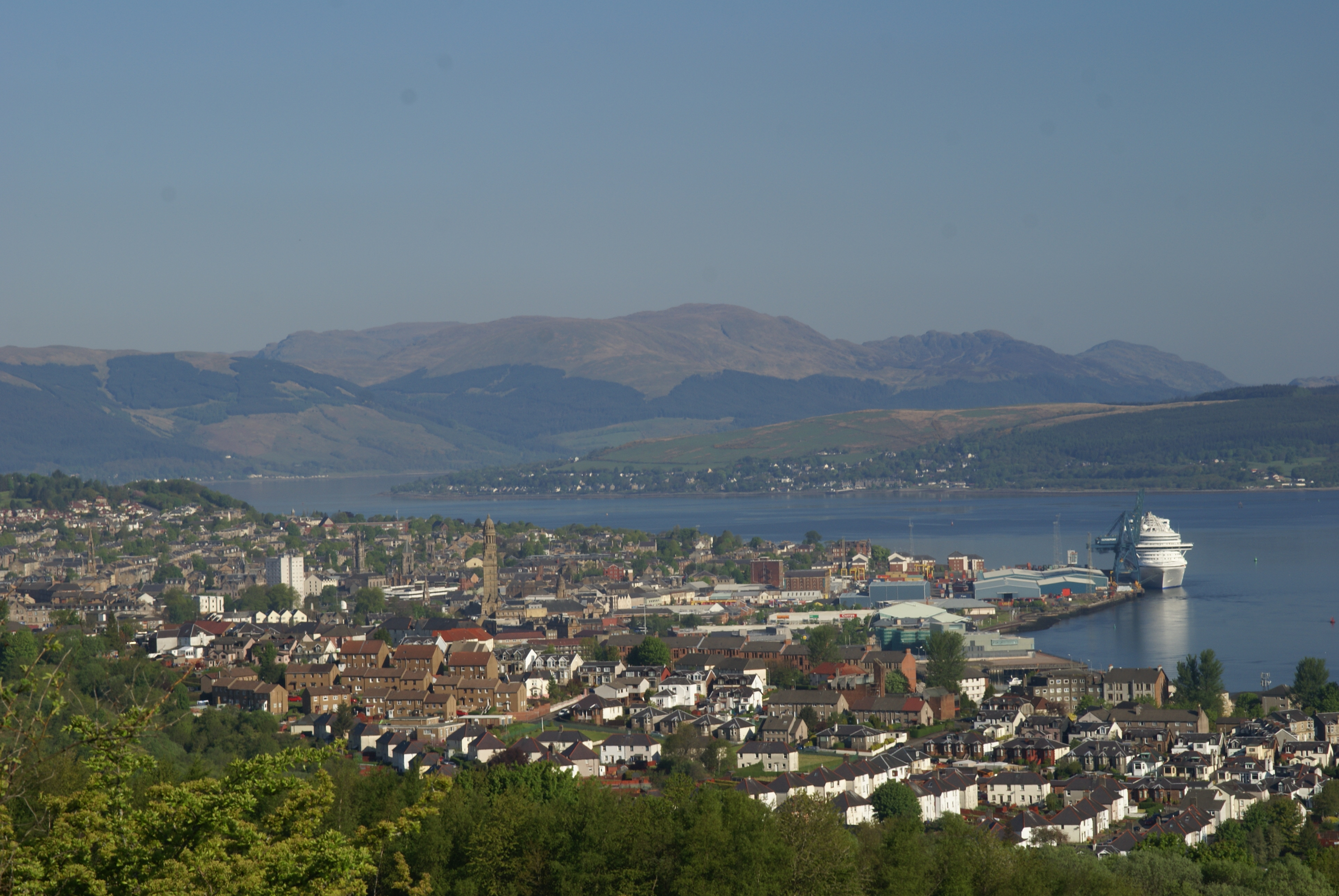 View looking north west over Greenock, Scotland, and across the Firth of Clyde towards Kilcreggan. The Cruise ship Caribbean Princess is shown docked at Greenock Ocean Terminal.